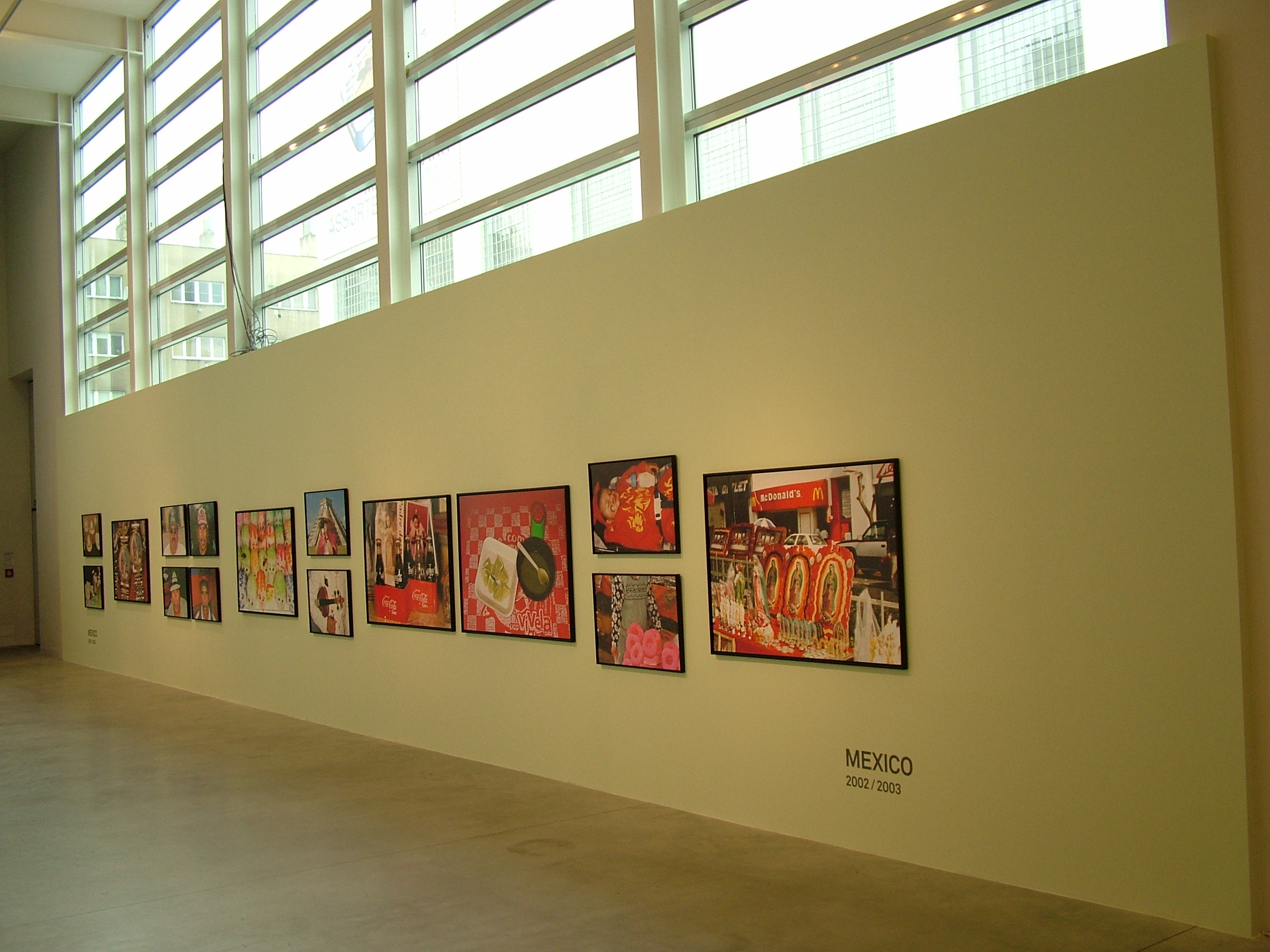 Výstava Martina Parra, Praha, MARTIN PARR: Assorted Cocktail, 10. 2 - 16. 5 2011